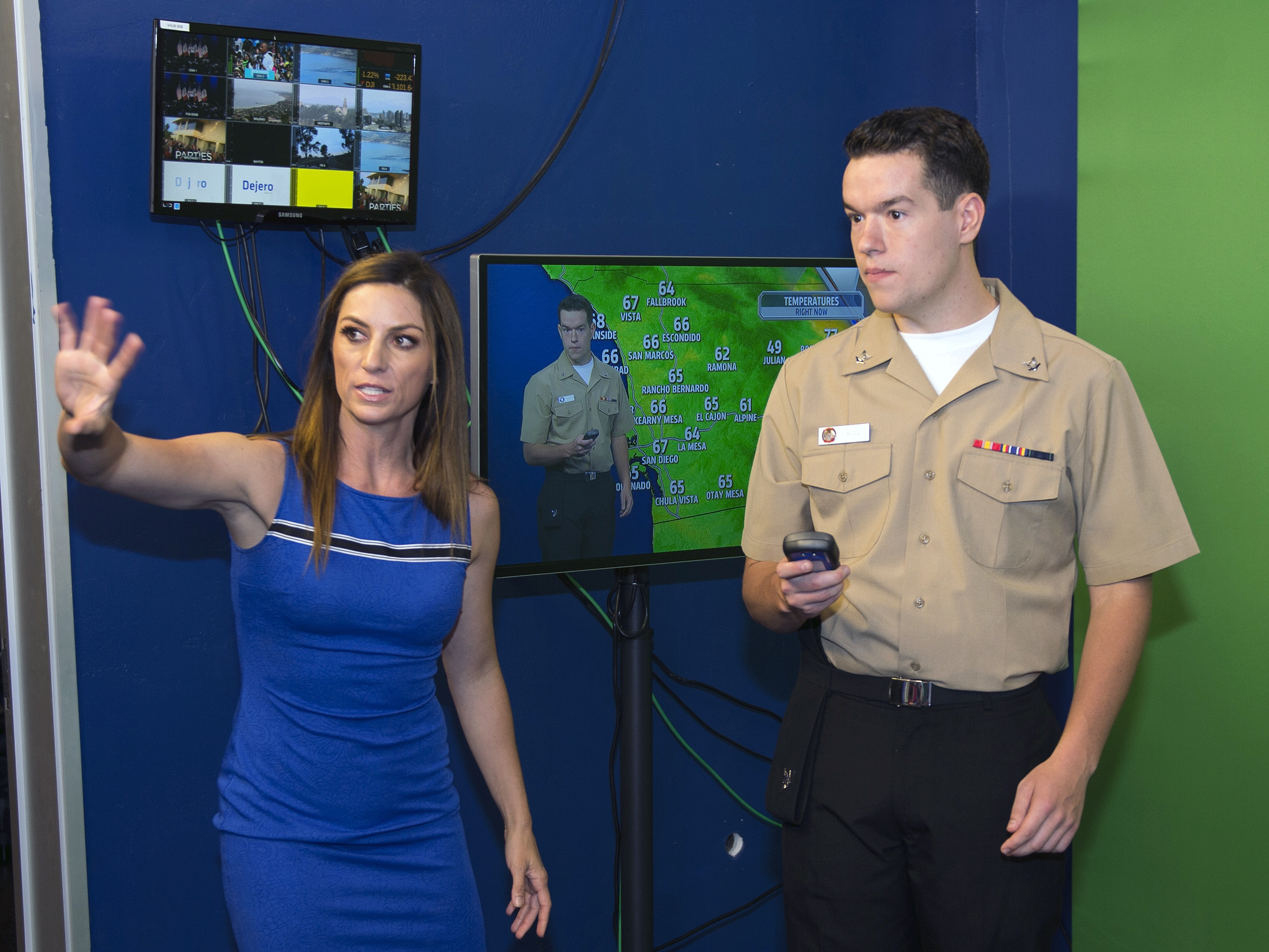 SAN DIEGO (Sept. 13, 2016) - Aerographer’s Mate 3rd Class Darian Noll, a Seattle native, takes direction from Chrissy Russo, a Fox Five weather anchor, on how to navigate the green screen, during San Diego Fleet Week 2016. Fleet Week offers the public an opportunity to meet Sailors, Marines, and members of the Coast Guard and gain a better understanding of how the sea services support the national defense of the United States and freedom of the seas. (U.S. Navy photo by Mass Communication Specialist 2nd Class Kristina Young)160913-N-UK248-029